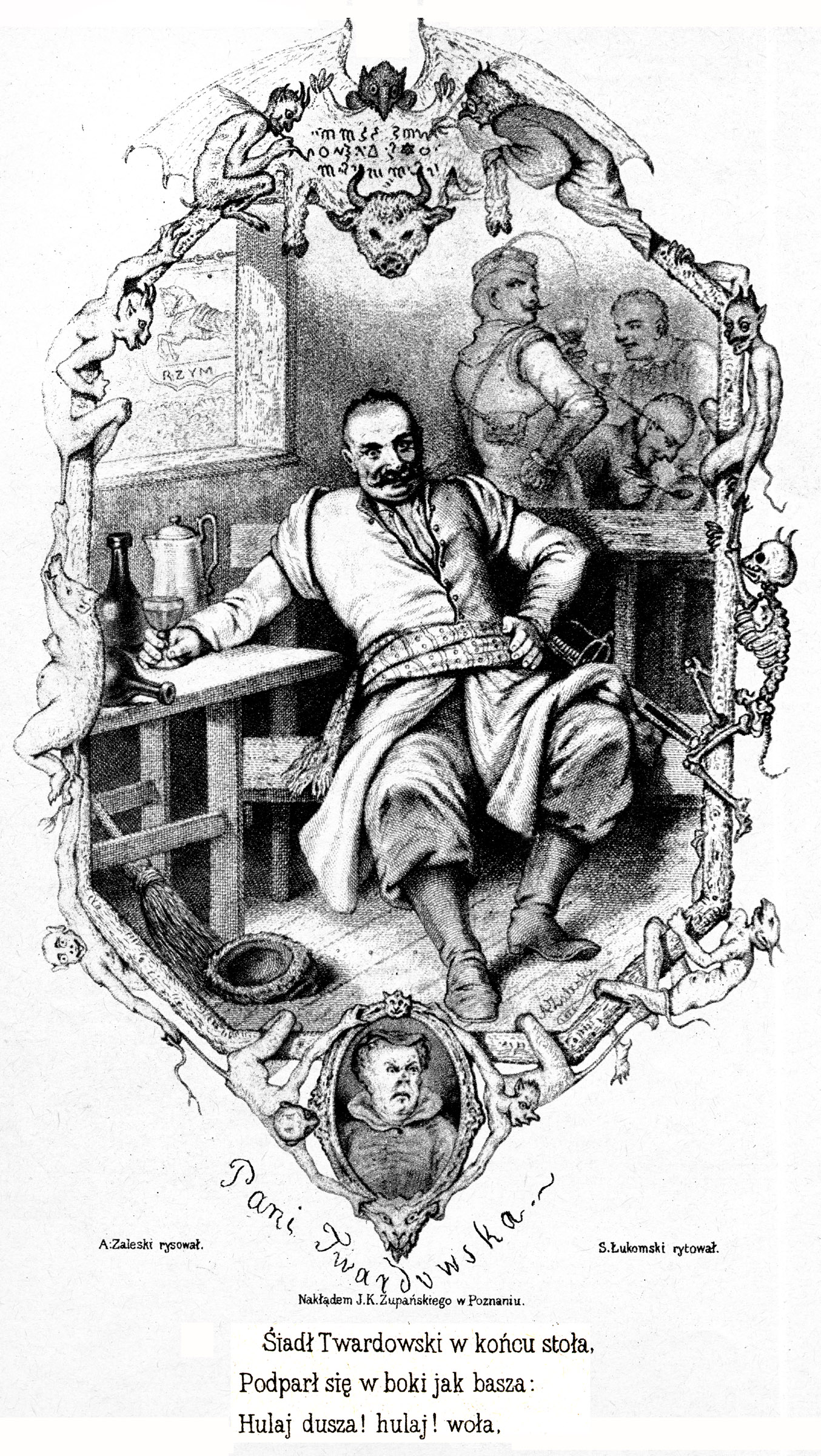 Pan Twardowski, Polish nobleman and sorcerer